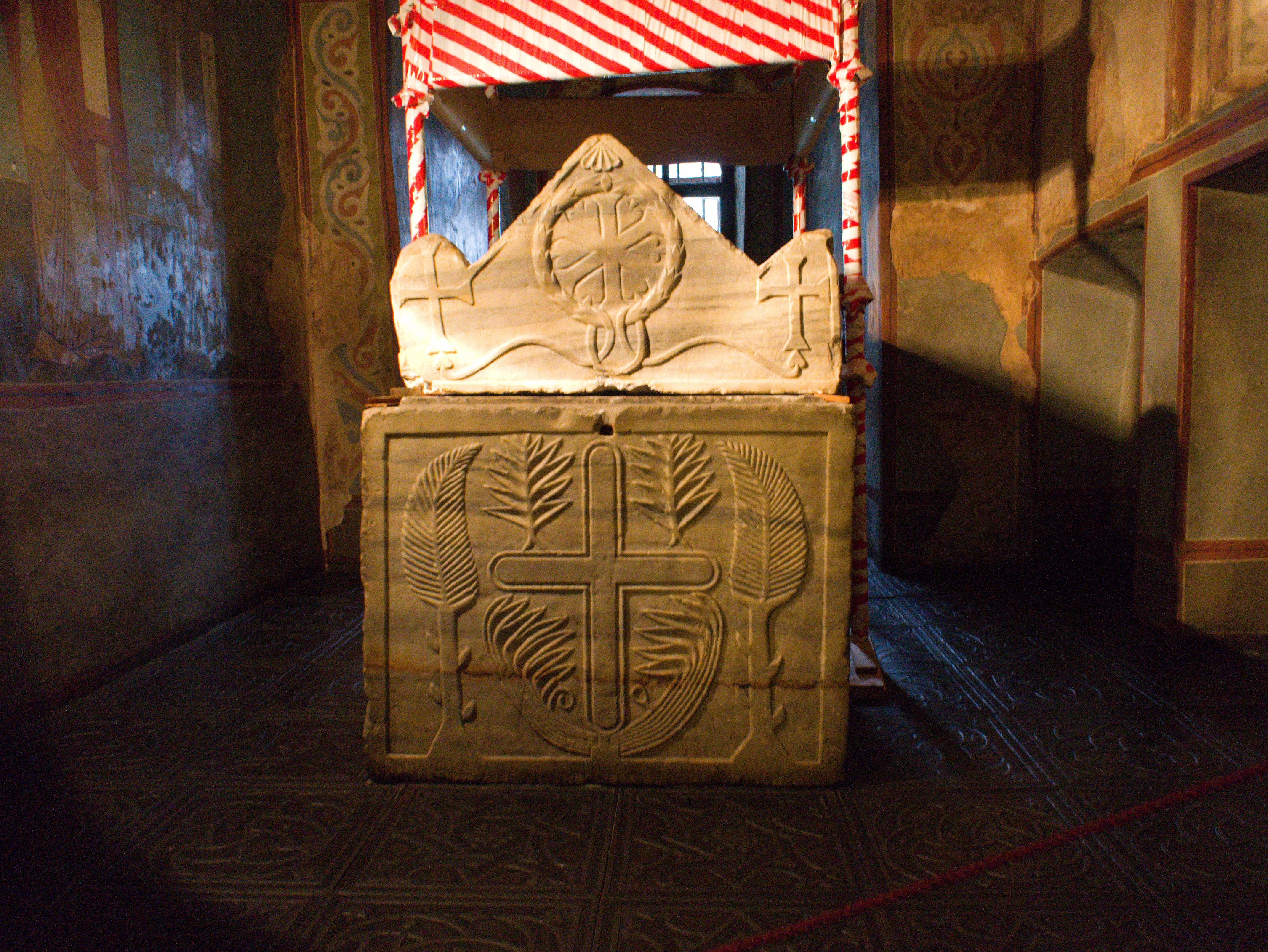 Sarkophag of Yaroslav Mudry, St. Sophia Cathedral in Kiev, Ukraine.